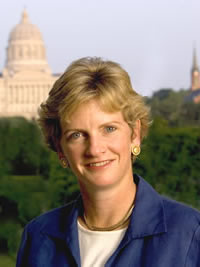 Official photo of Missouri Secretary of State Robin Carnahan (D-MO).